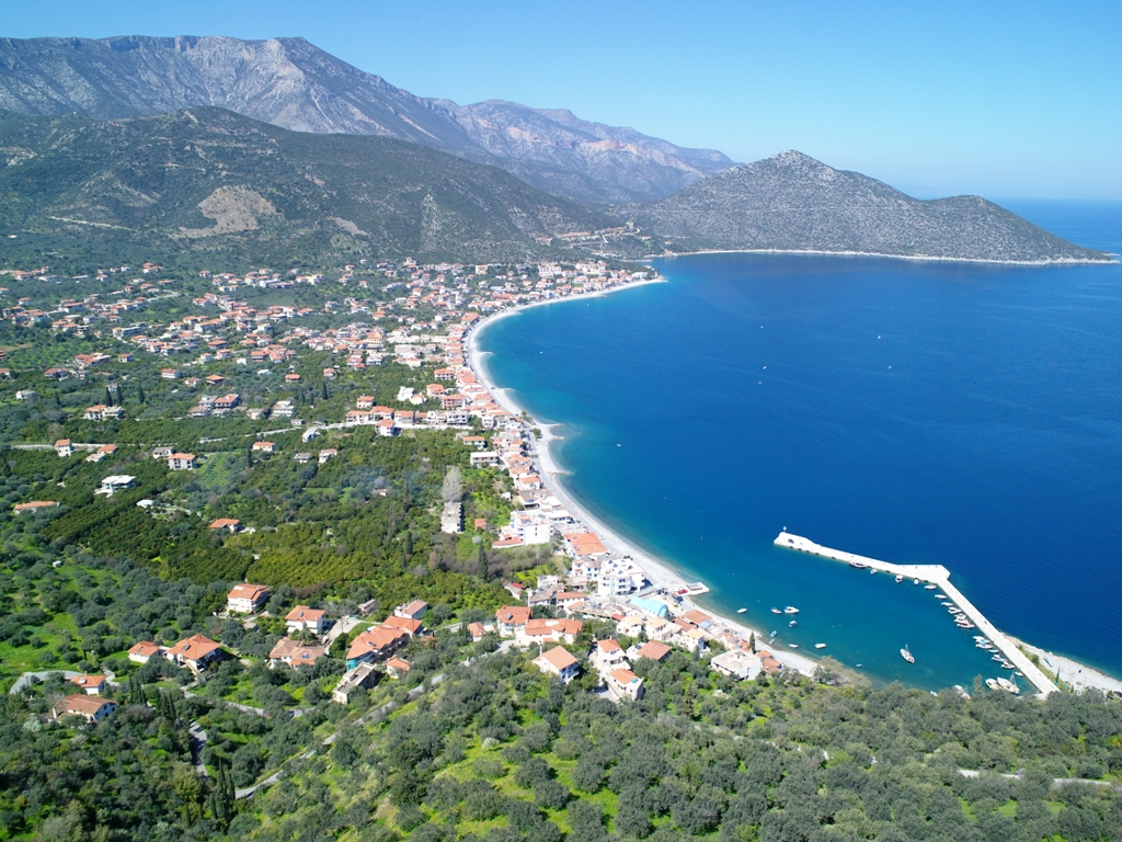 panoramic view of Tyros